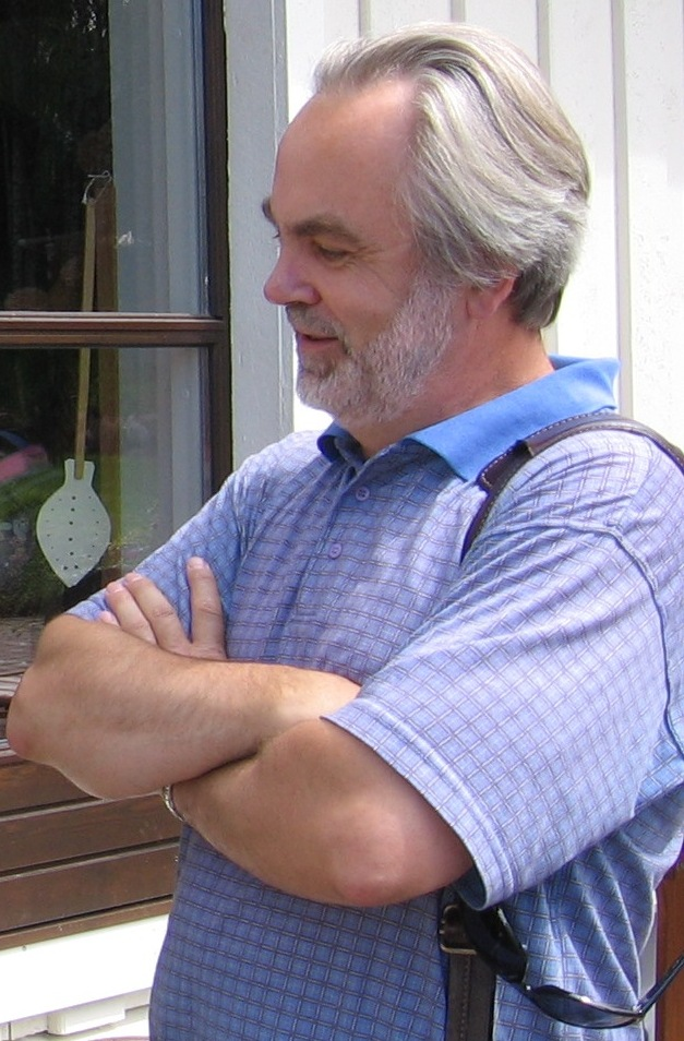 Estonian archaeologist Valter Lang